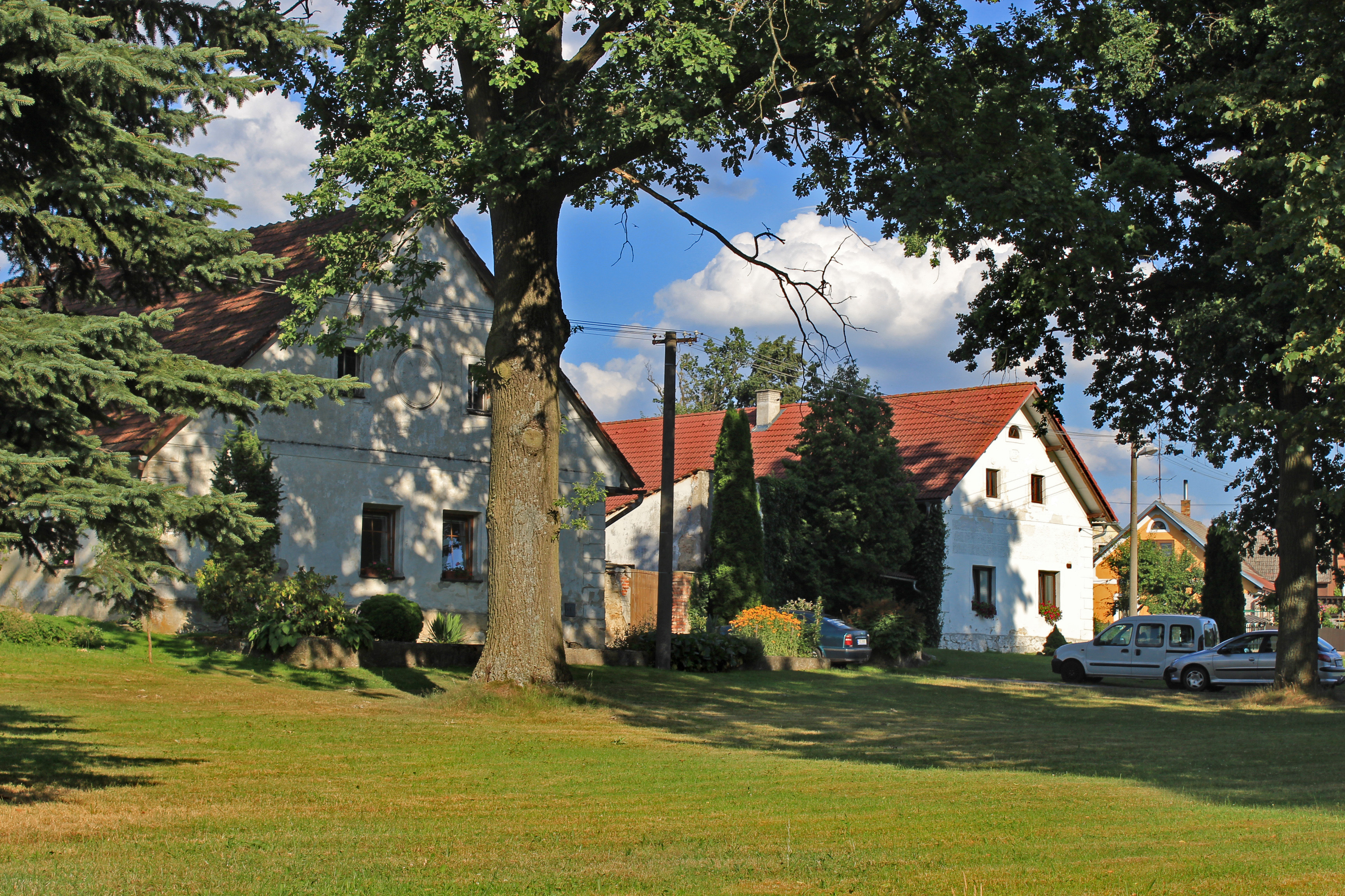 Common in Člunek, Czech Republic.